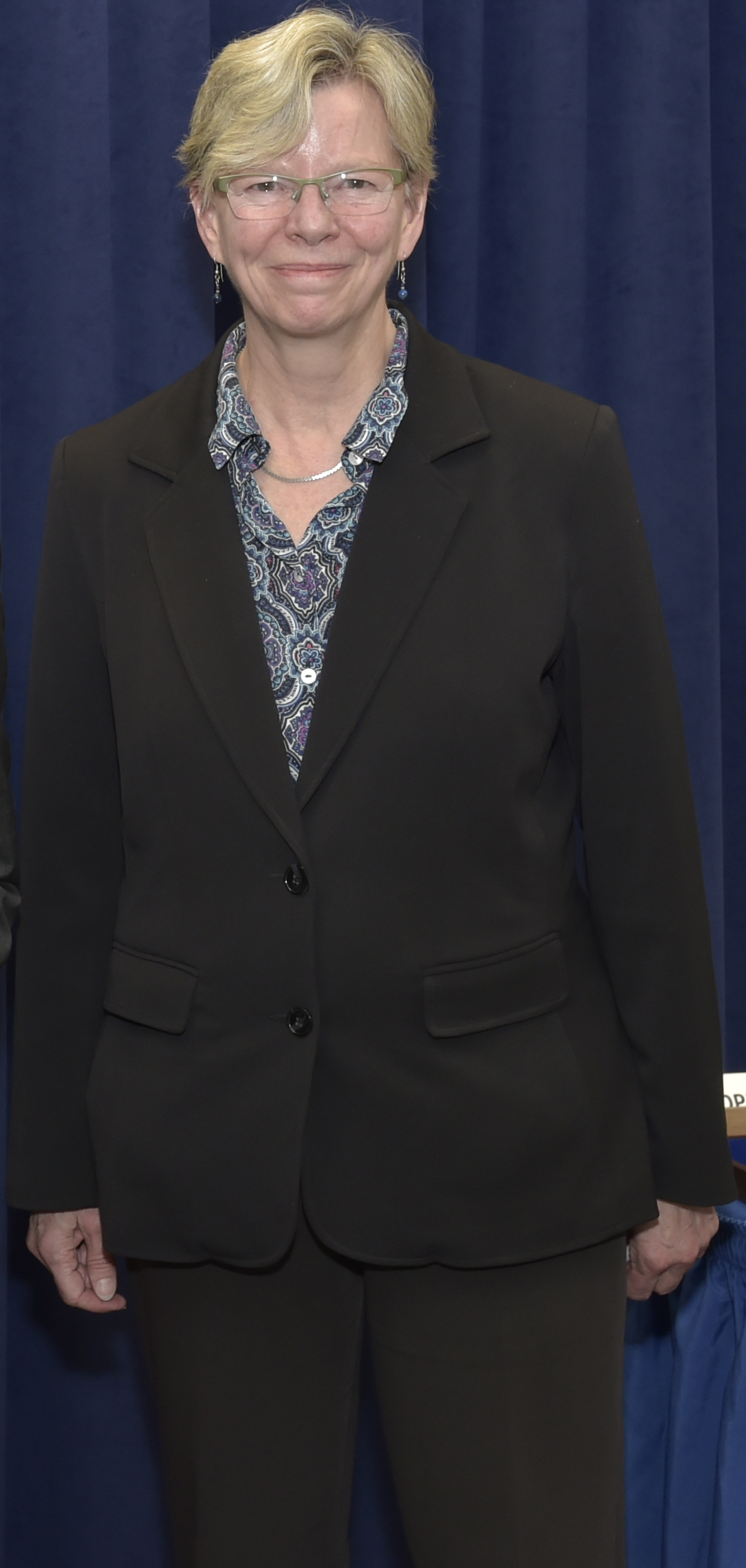 (PHOTO CREDIT: DOE PHOTOGRAPHER, CHARLES WATKINS) For more information or additional images, please contact 202-586-5251.